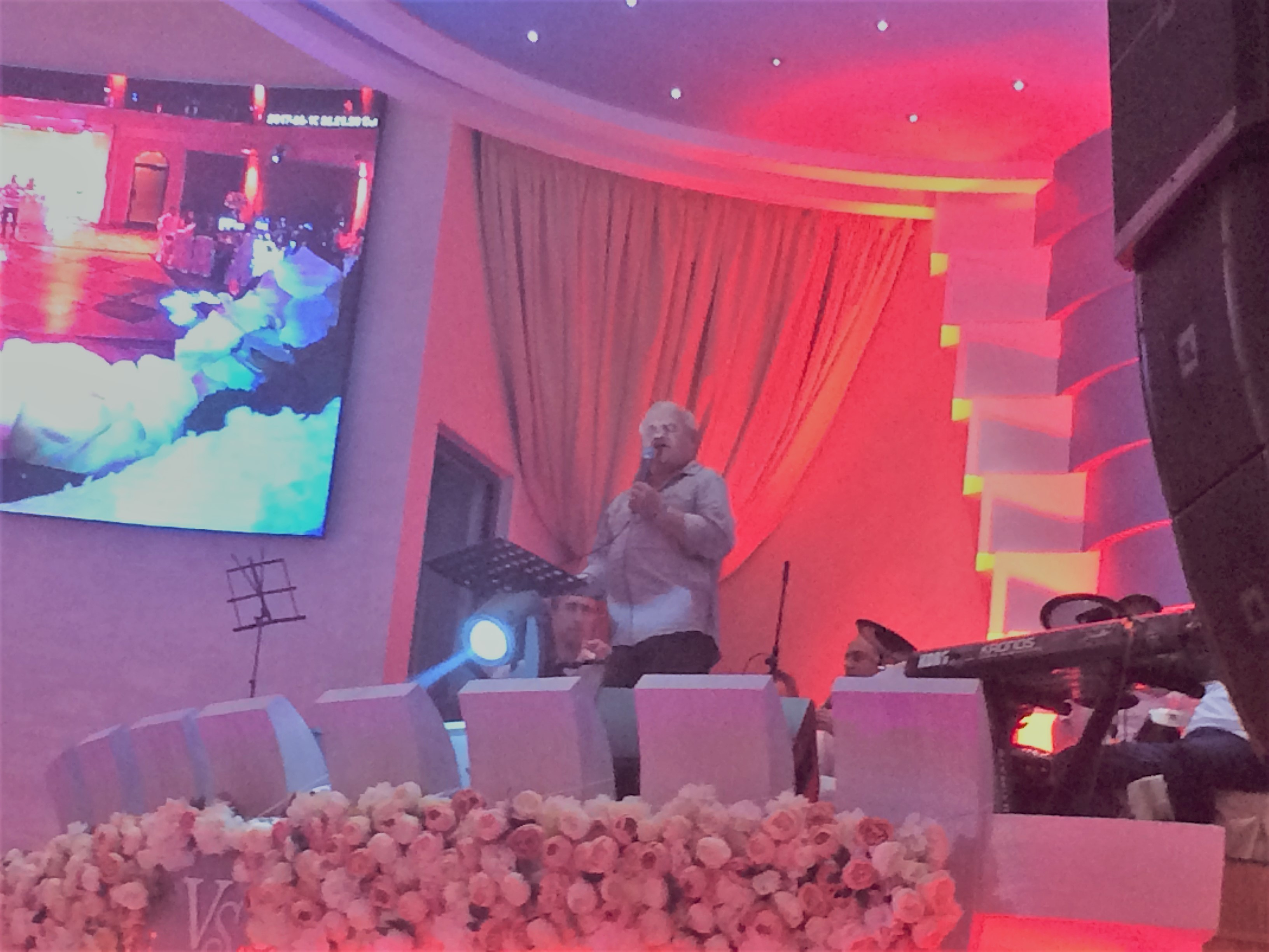 Alik Gyunashyan in Ureni restaurant